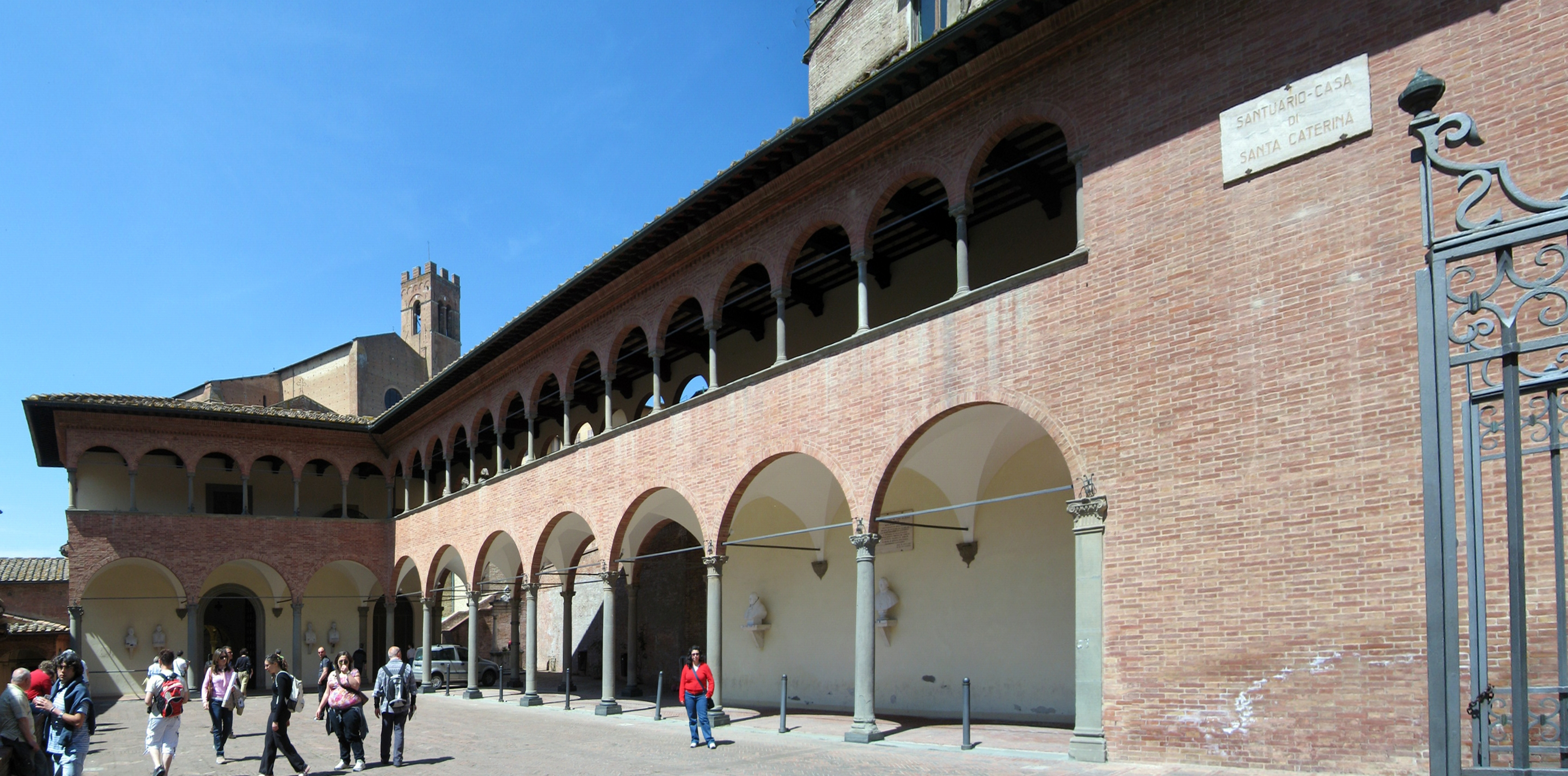 This is by tradition the house of Saint Catherine of Siena.